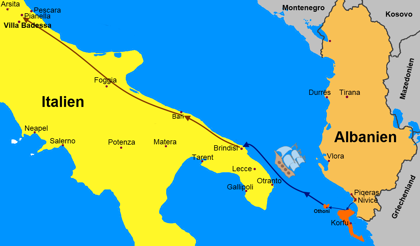 Possible emigration route of the population of Piqeras to Villa Badessa in Abruzzo